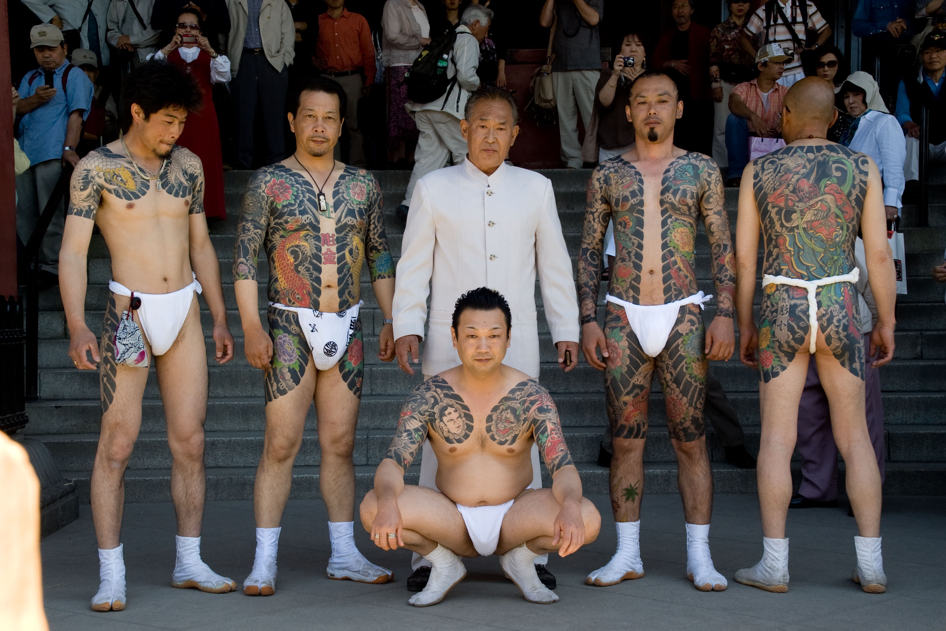 Yakuza showing off their tattoos and status at the Sanja Matsuri festival in Japan, 2007.